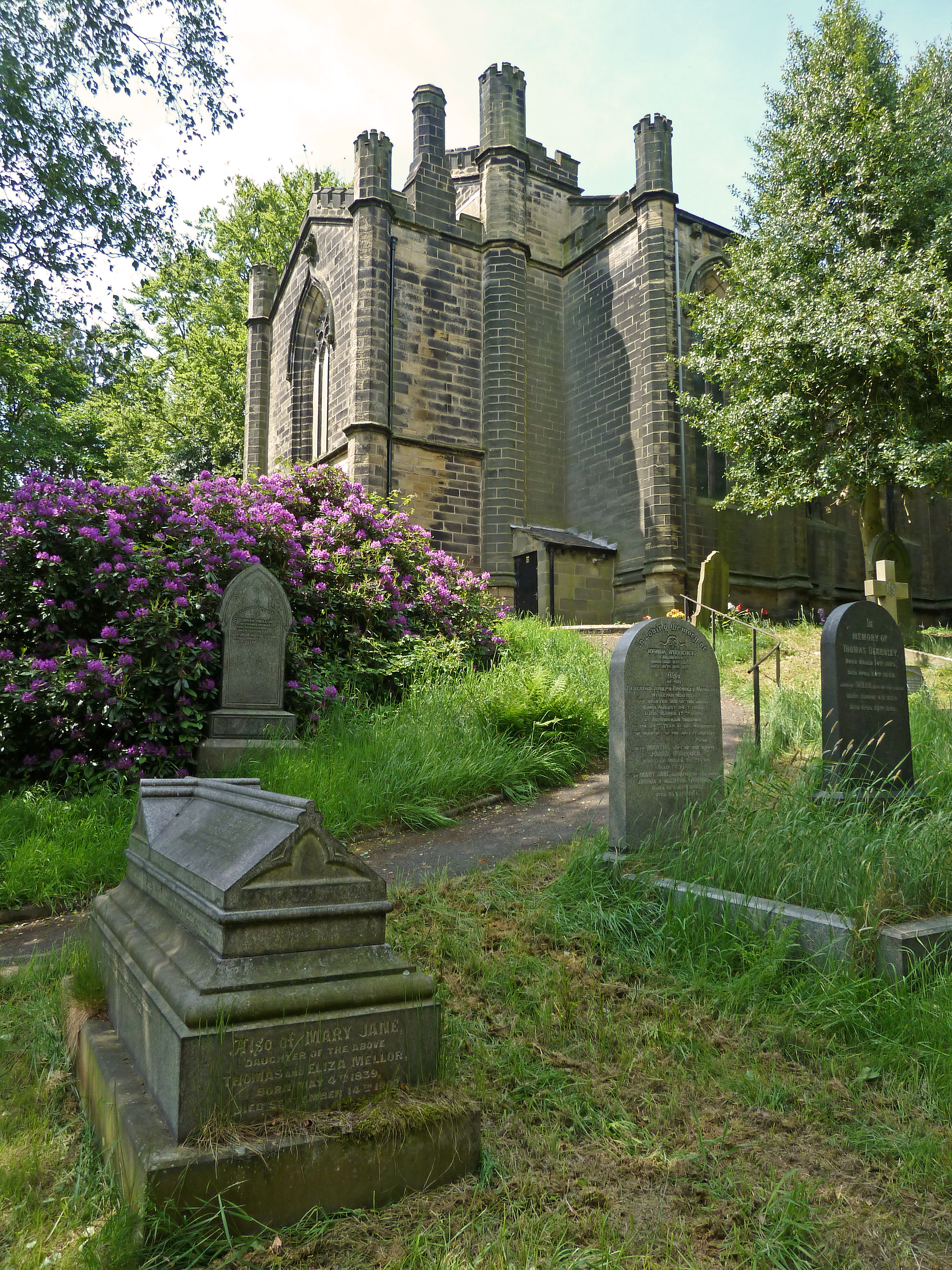 All Saints, Netherthong not an easy one to photo as it's mostly hidden by trees. The chancel was added in 1877 by architect William Swinden Barber.